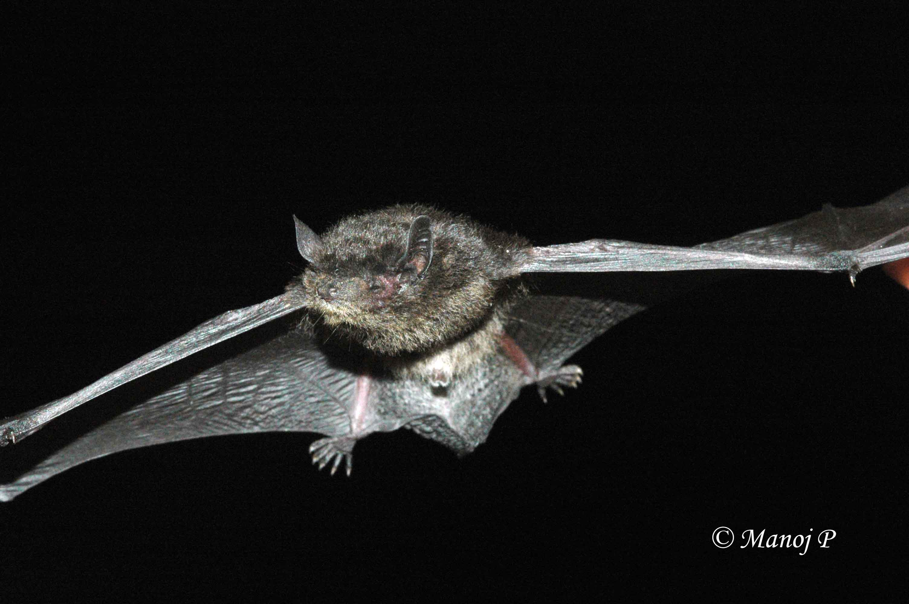 Pipistrellus tenuis from Kottayam, Kerala